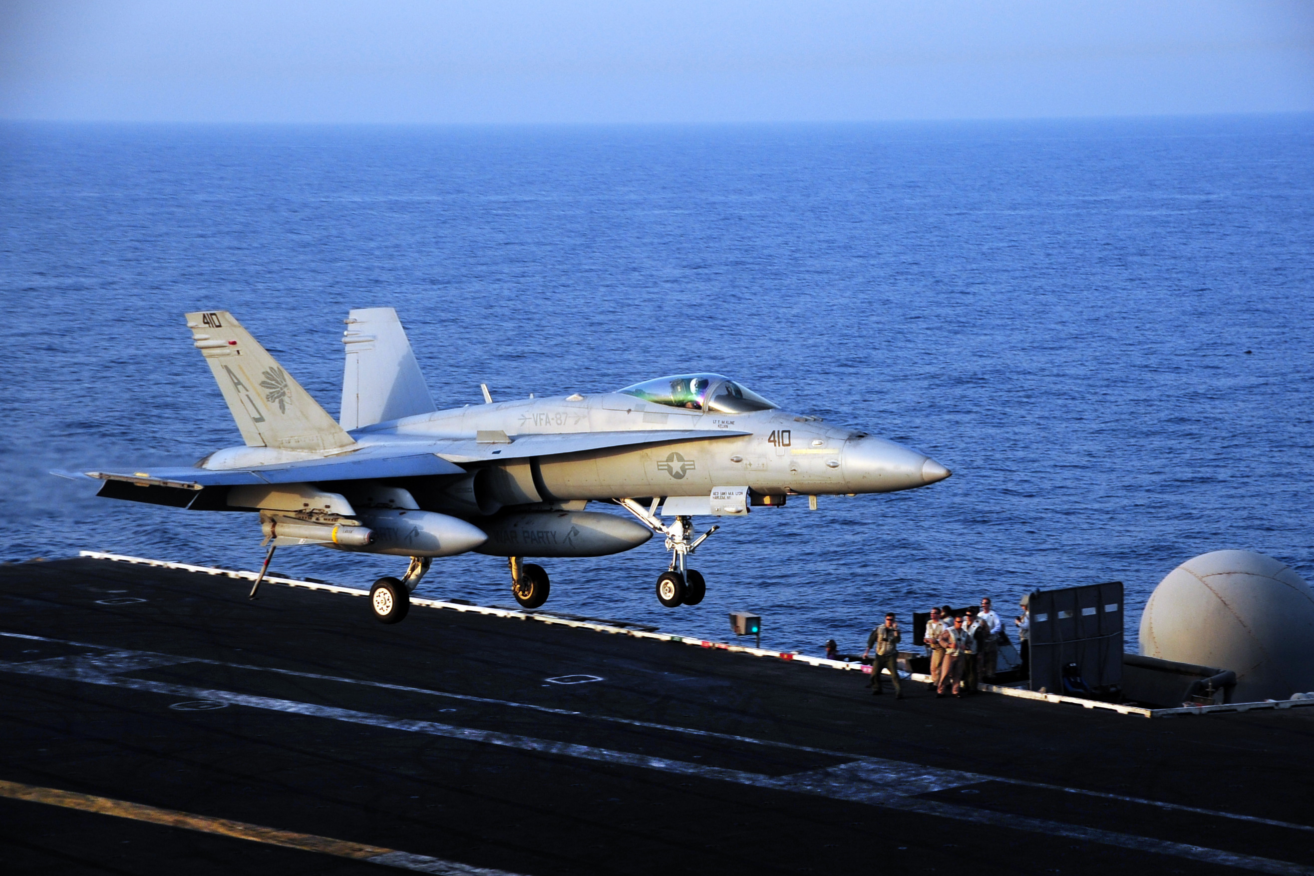 ARABIAN GULF (Aug. 12, 2014) An F/A-18C Hornet attached to the Golden Warriors of Strike Fighter Squadron (VFA) 87 lands on the flight deck of the aircraft carrier USS George H.W. Bush (CVN 77). George H.W. Bush is supporting maritime security operations and theater security cooperation efforts in the U.S. 5th Fleet area of responsibility. (U.S. Navy photo by Mass Communication Specialist 3rd Class Joshua Card/Released) 140812-N-CZ979-044Join the conversation